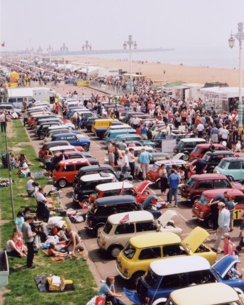 Typical Brighton seafront event; a display of cars (in this case Minis) by an owners club, after a London to Brighton run. Photographer=uploader=Wikipedia User:Kierant